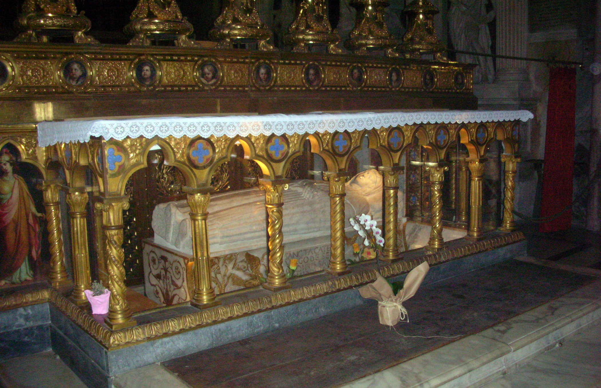 Sarcophagus of Saint Catherine of Siena by Isaia da Pisa (1447-1464), located beneath the High Altar of the church of Santa Maria sopra Minerva in Rome